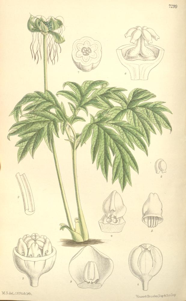 Illustration of Tacca pinnatifida